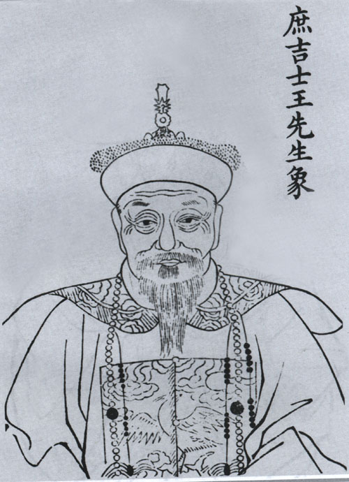 Wang Mu, poet of the Qing Dynasty.